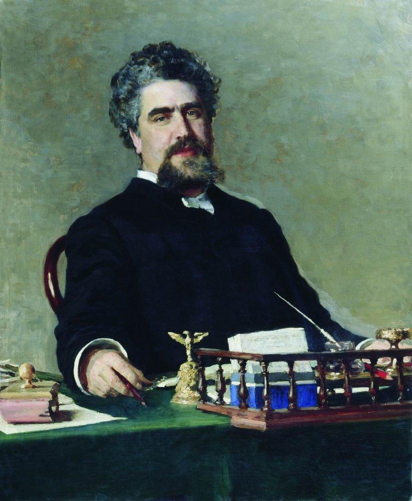 Portrait of engineer Ivan Yefgrafovich Adadurov, chairman of the Ryazan-Uralsk Railway Company from 1869 to 1884 and from 1887 to 1901.